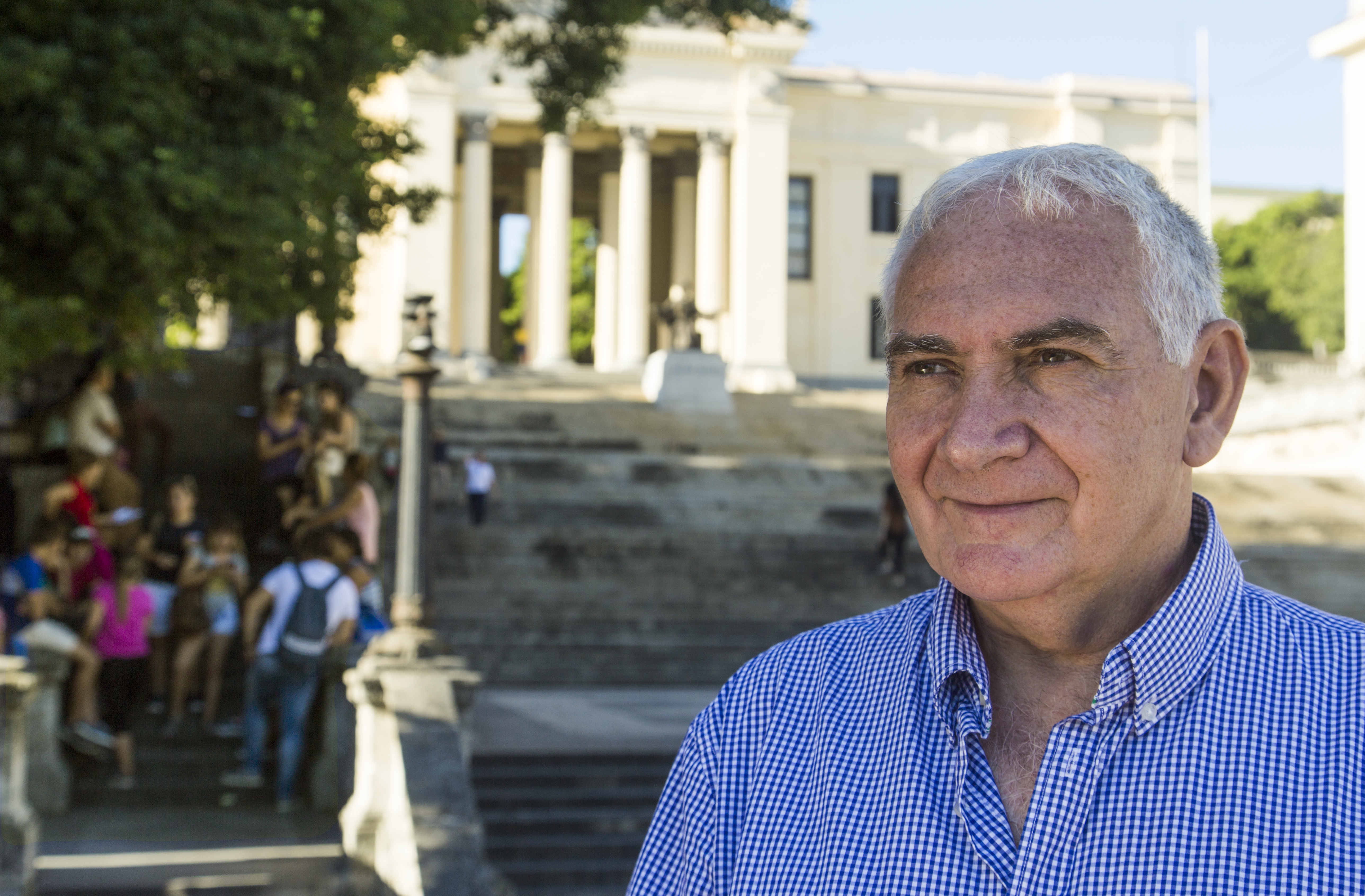 Joseba Sarrionandia in Havana, year 2016. New photo after 31 years.